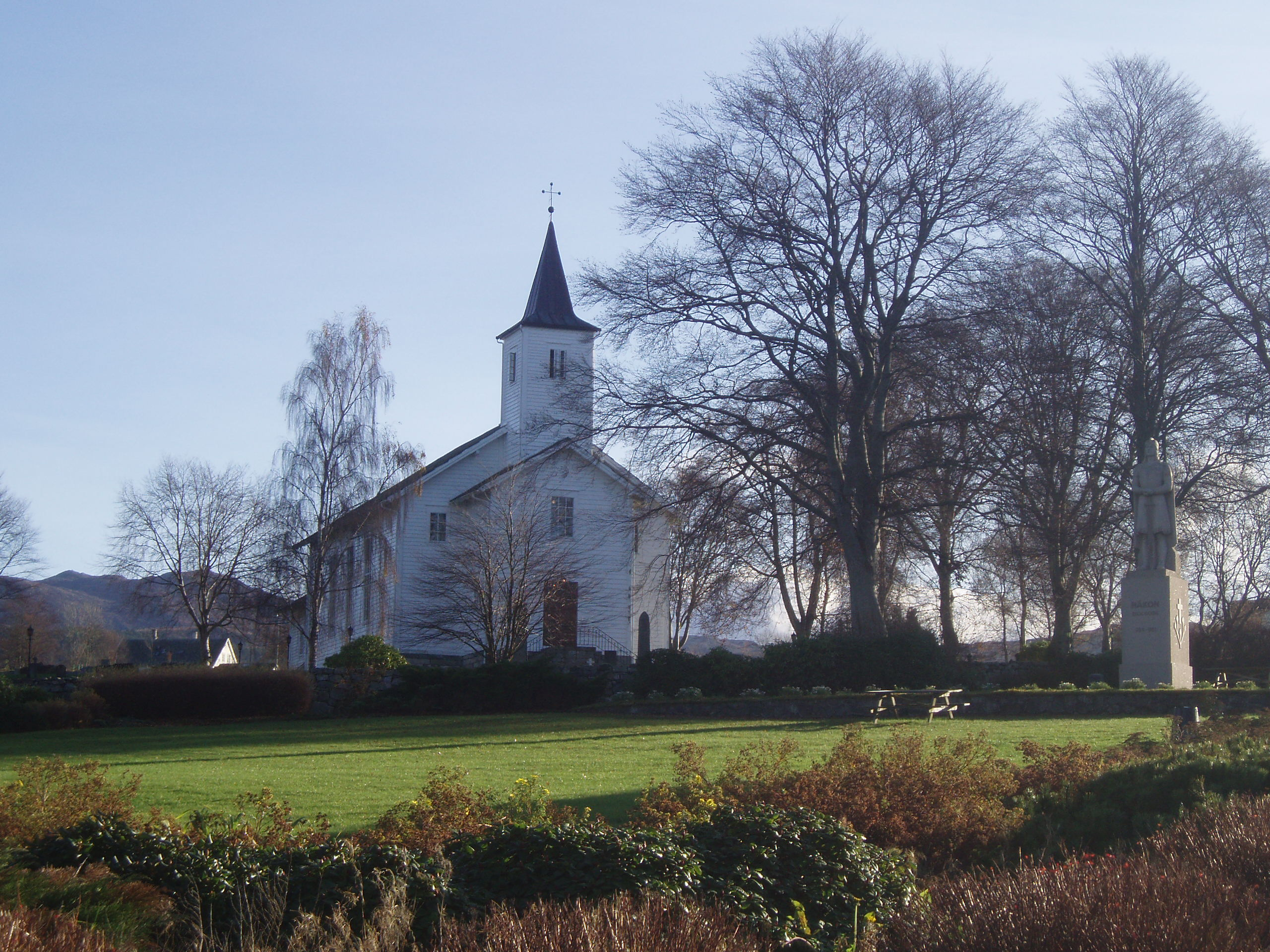 The church in Fitjar with Håkonarparken and the statue of Håkon I of Norway at front